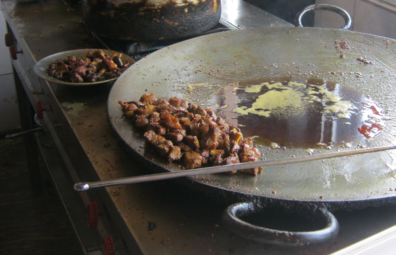 Tass a Nepali food item.